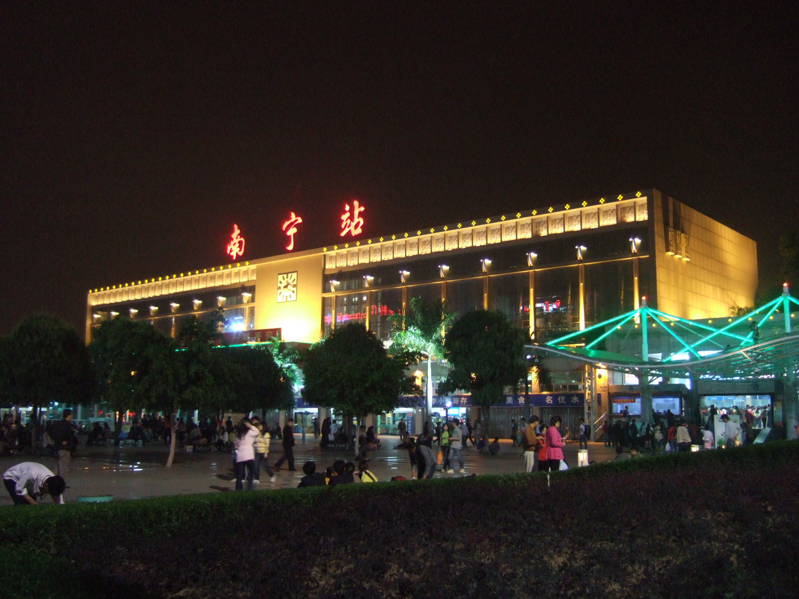 Nanning train station.